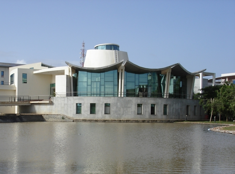 Wipro Floating learning Centre, Electronic City 2, Bangalore, India.